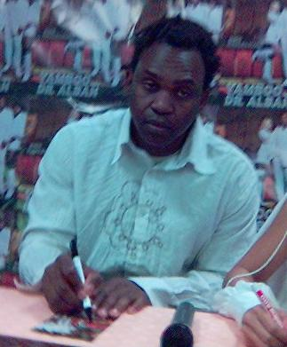 Dr. Alban and Yamboo promoting their "new" hit Sing Halleluja in front of a supermarket...